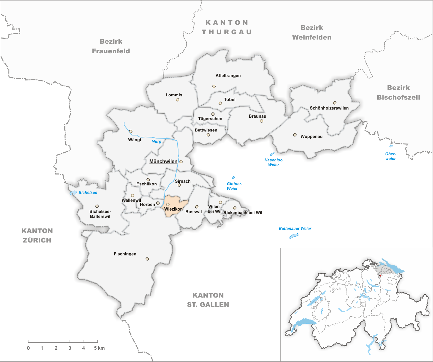 Municipality Wiezikon